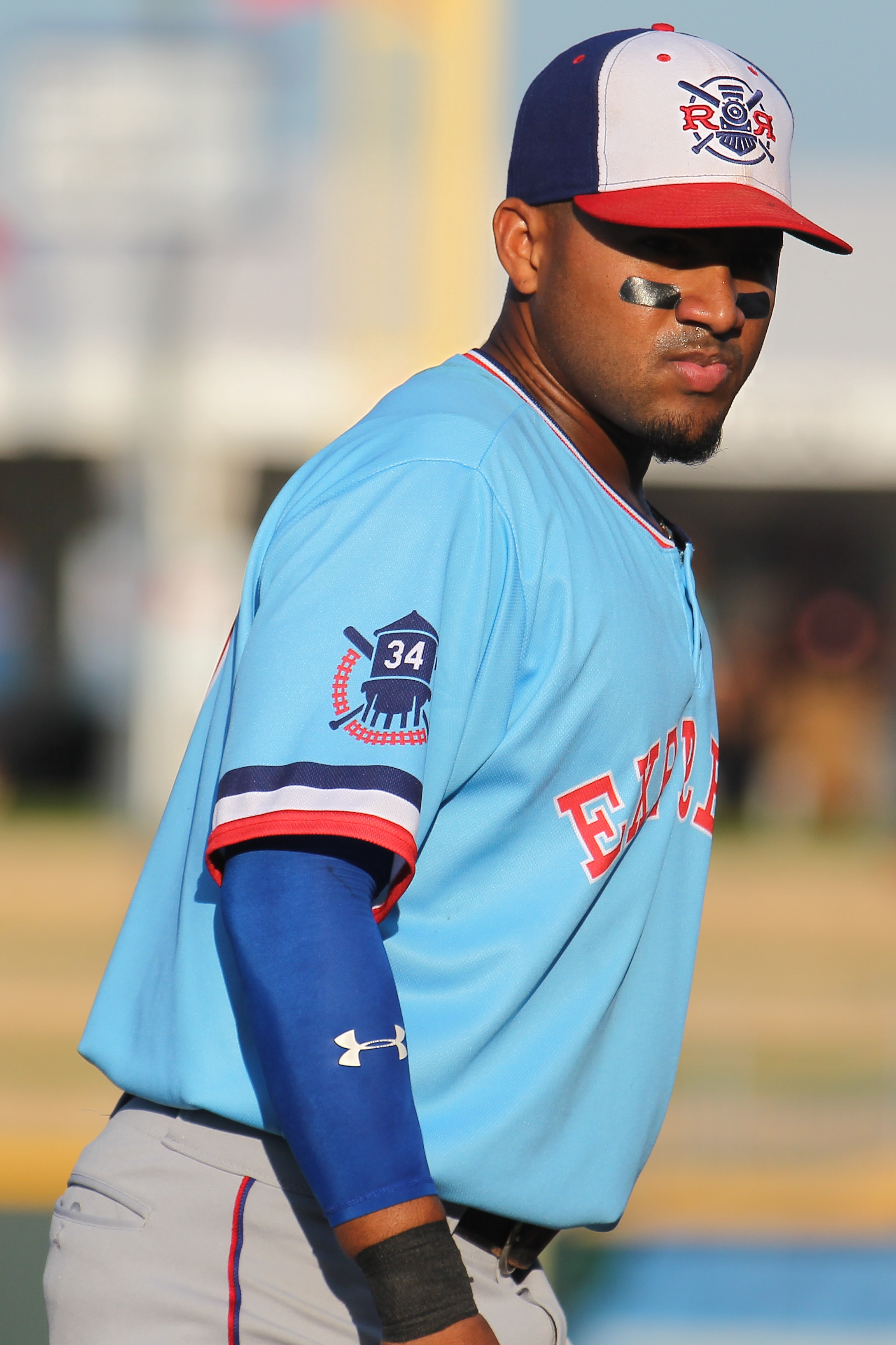 Andy Ibanez of the Round Rock Express Minor League Baseball team. Minda Haas Kuhlmann | 2018 USAGE INSTRUCTIONS: You are welcome to share or publish to your own site or social media account, but you MUST credit me, Minda Haas Kuhlmann. Twitter: @minda33. Instagram: minda.haas